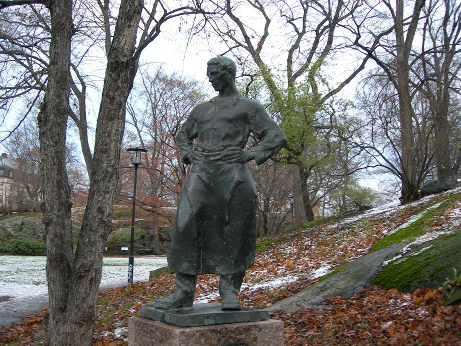 Statue of a Worker in Vasaparken, Stockholm. Photo: Bronks 2005.